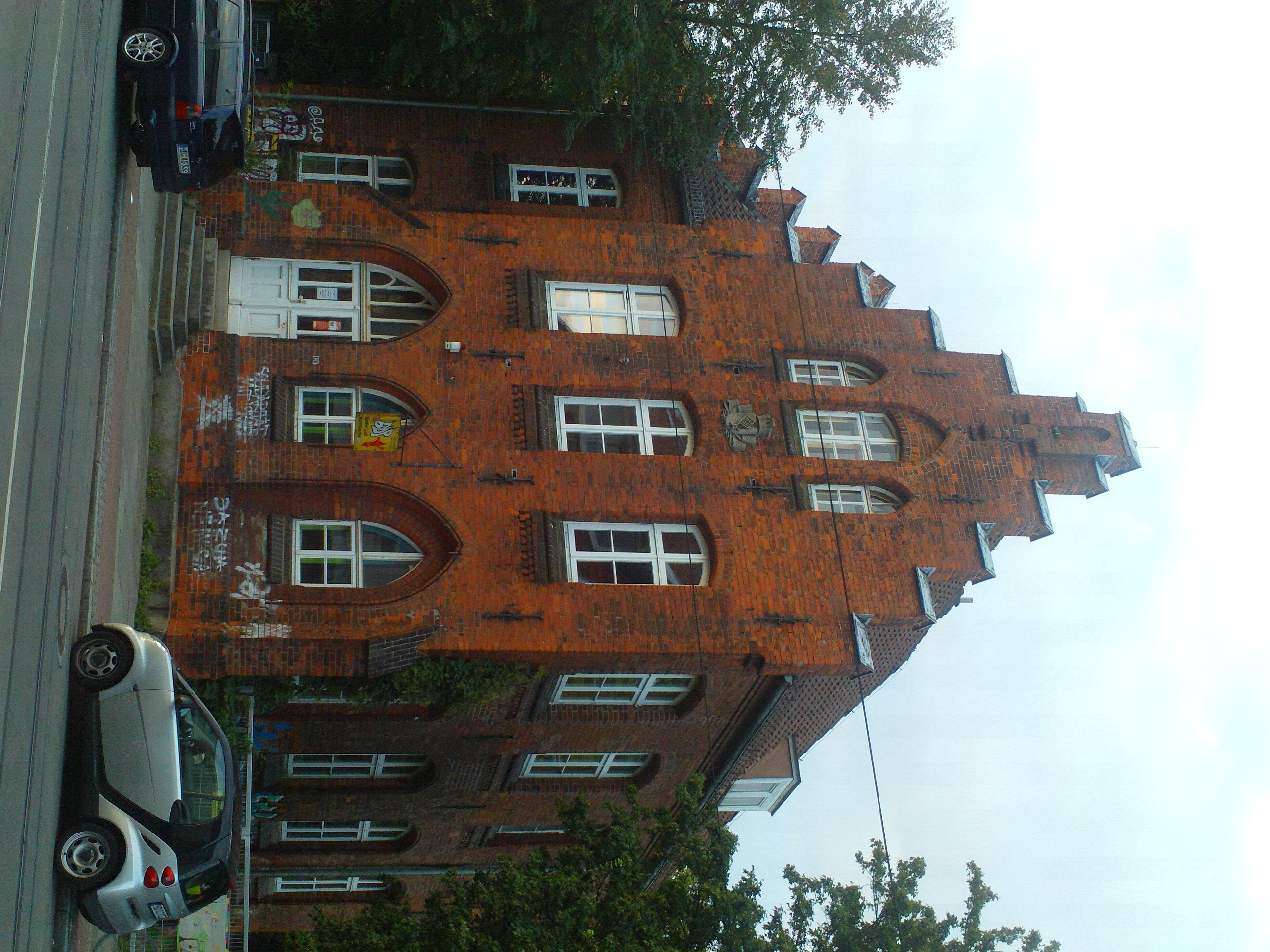 A school at numbers 136 and 138 Am Hulsberg and at Stader Straße in Bremen, Germany. It is registered as a protected cultural monument with the State Conservation Office (registration number 1735).